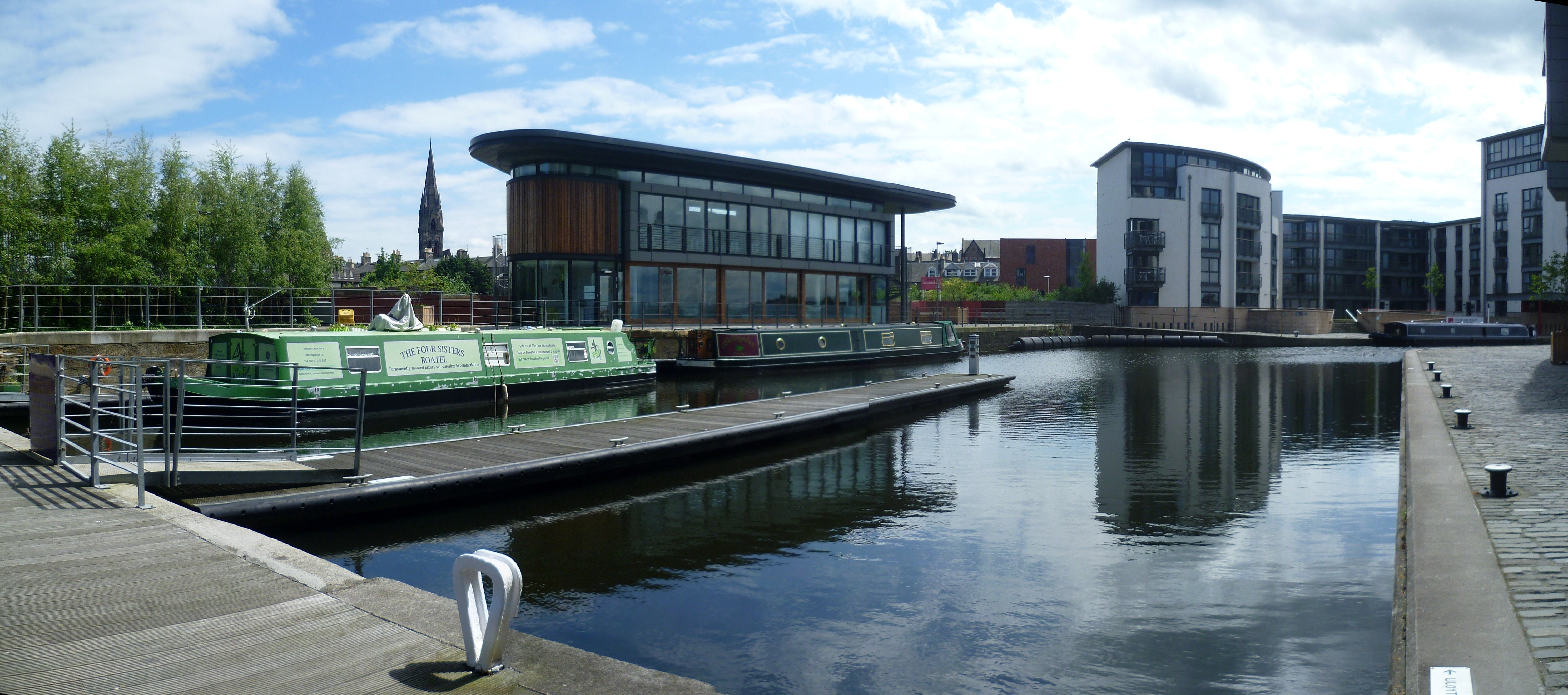 Lochrin Basin, Fountainbridge (composite photograph)